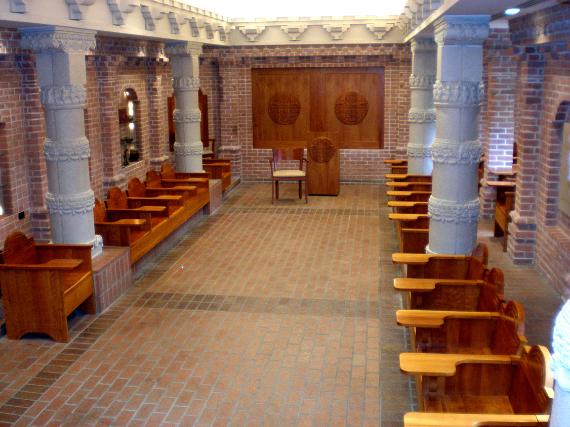 The Indian Nationality Room at the University of Pittsburgh